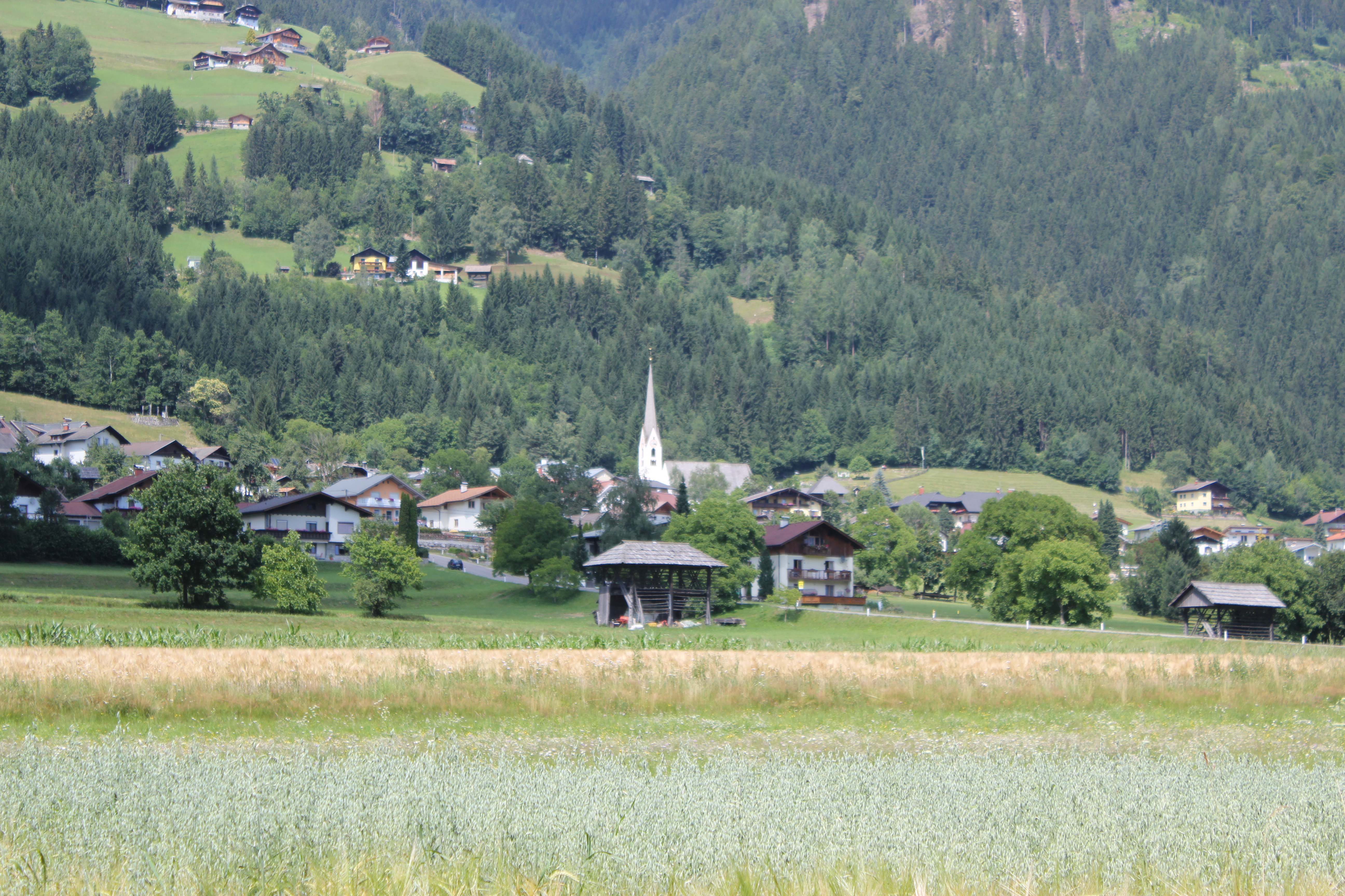 Irschen